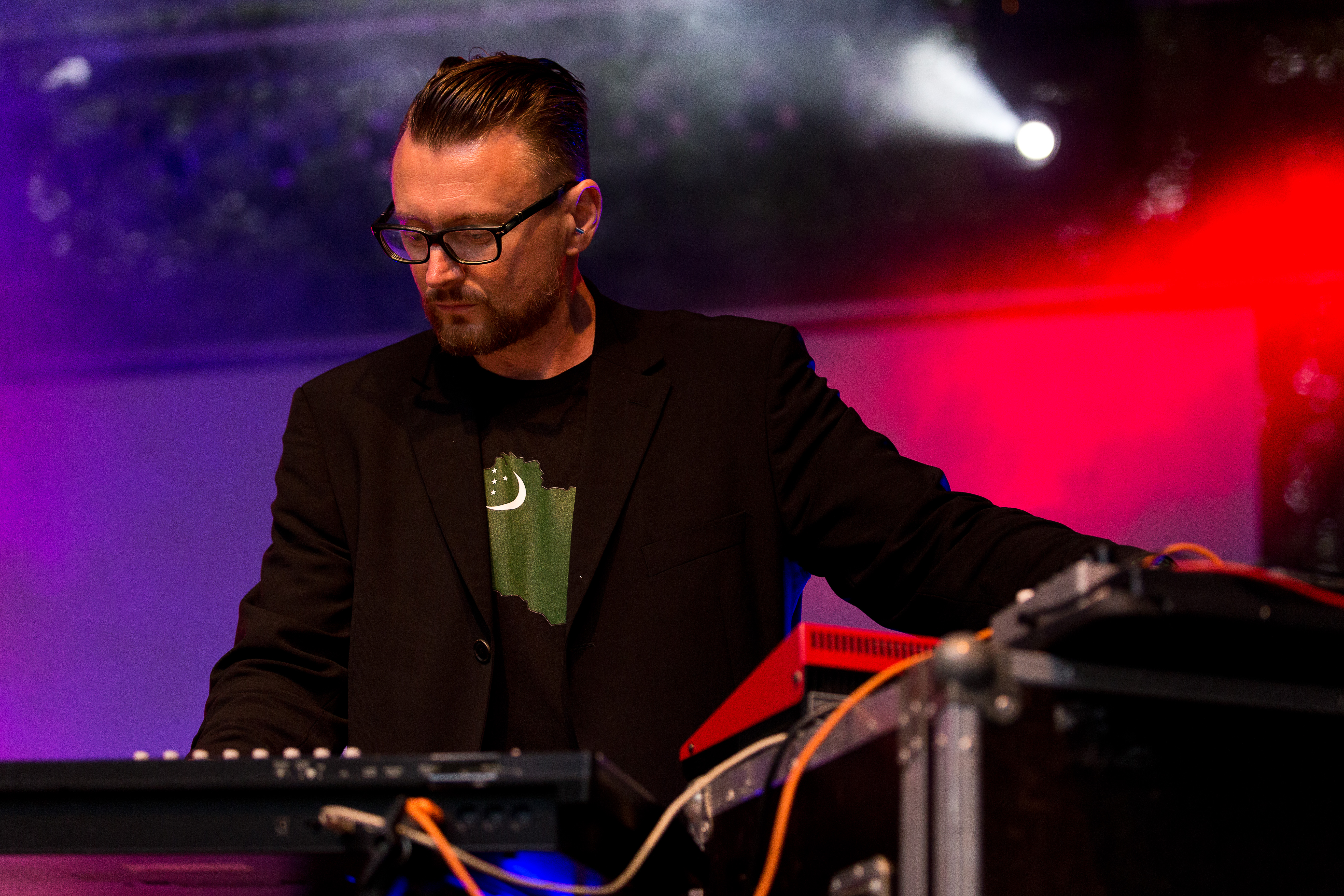 The Canadian ambient band Conjure one at the Nocturnal Culture Night 10 2015 in Deutzen/Germany.